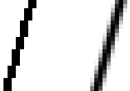 Example of anti-aliasing contrast.